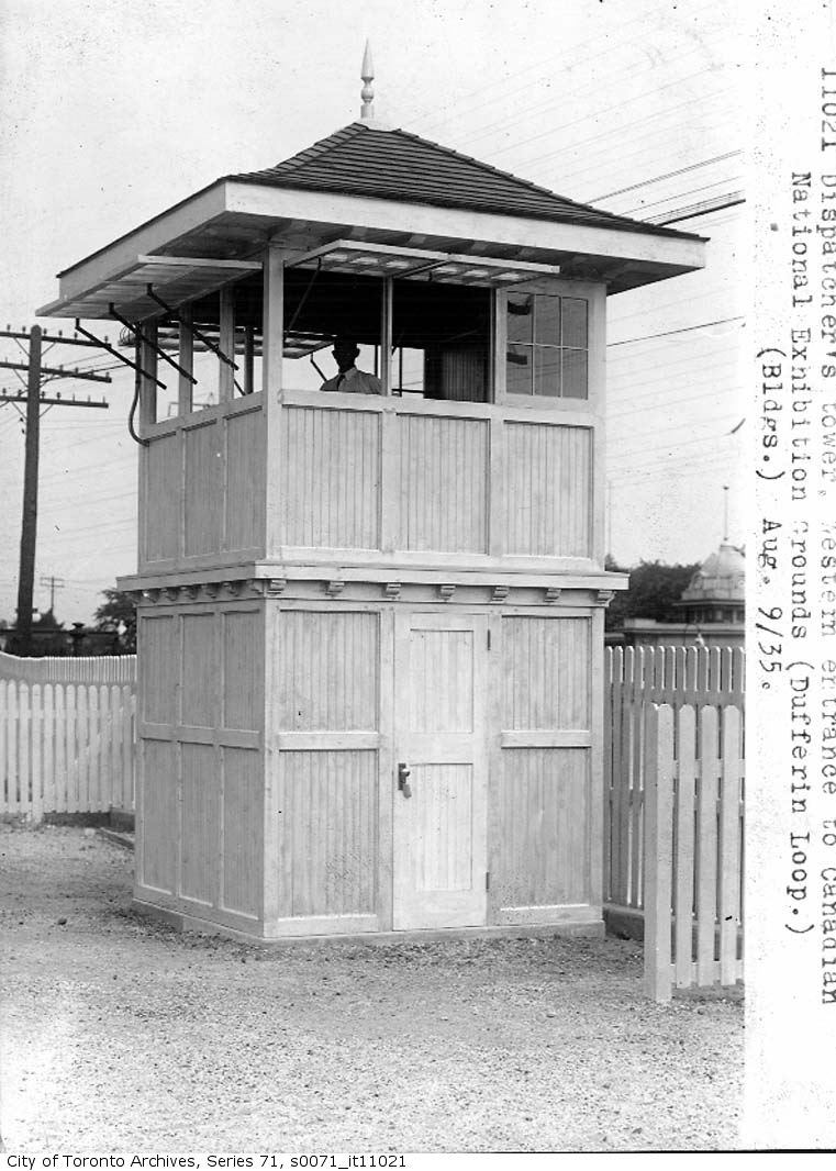 Dispatcher's tower, western entrance to Canadian National Exhibition grounds, (Dufferin Loop), (Buildings Department)